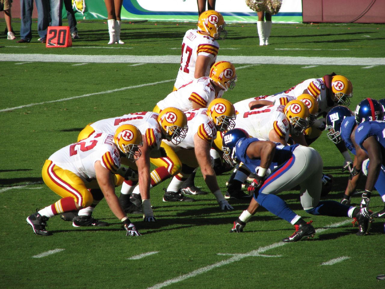 The Washington Redskins wearing their throwback uniforms gather at the line of scrimmage against the Giants.